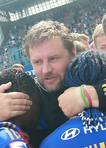 Sergei Sergeevich Shustikov as a coach of PFC CSKA Moscow